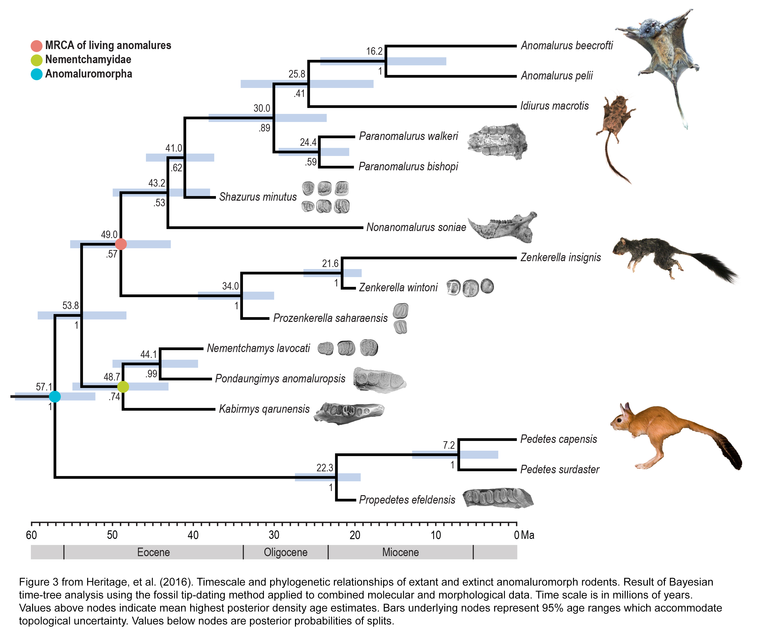 Evolutionary Studies, Genetics, Paleontology, Taxonomy, Zoology